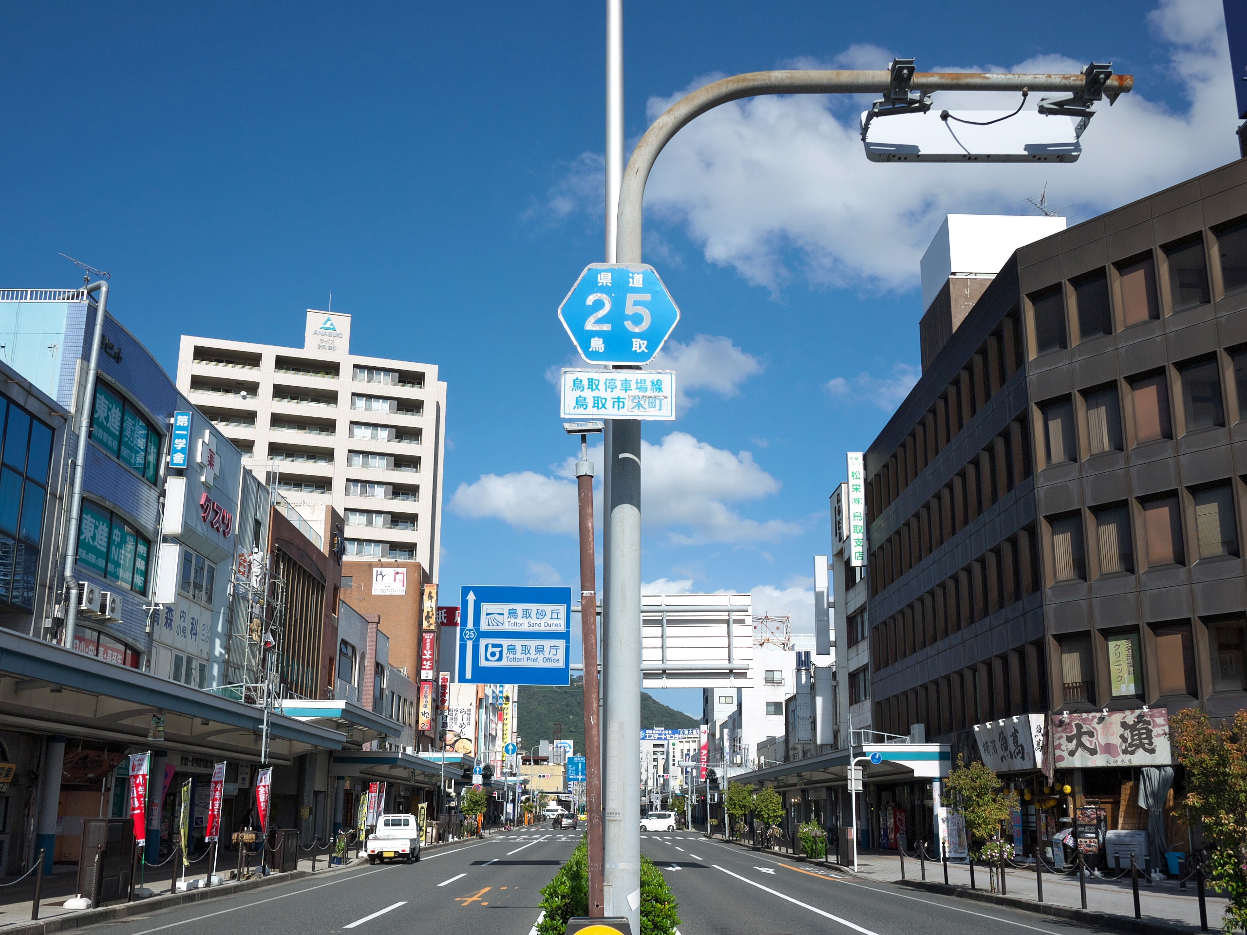 Tottori Prefectural Road Route 25 in Sakaemachi, Tottori, Tottori prefecture